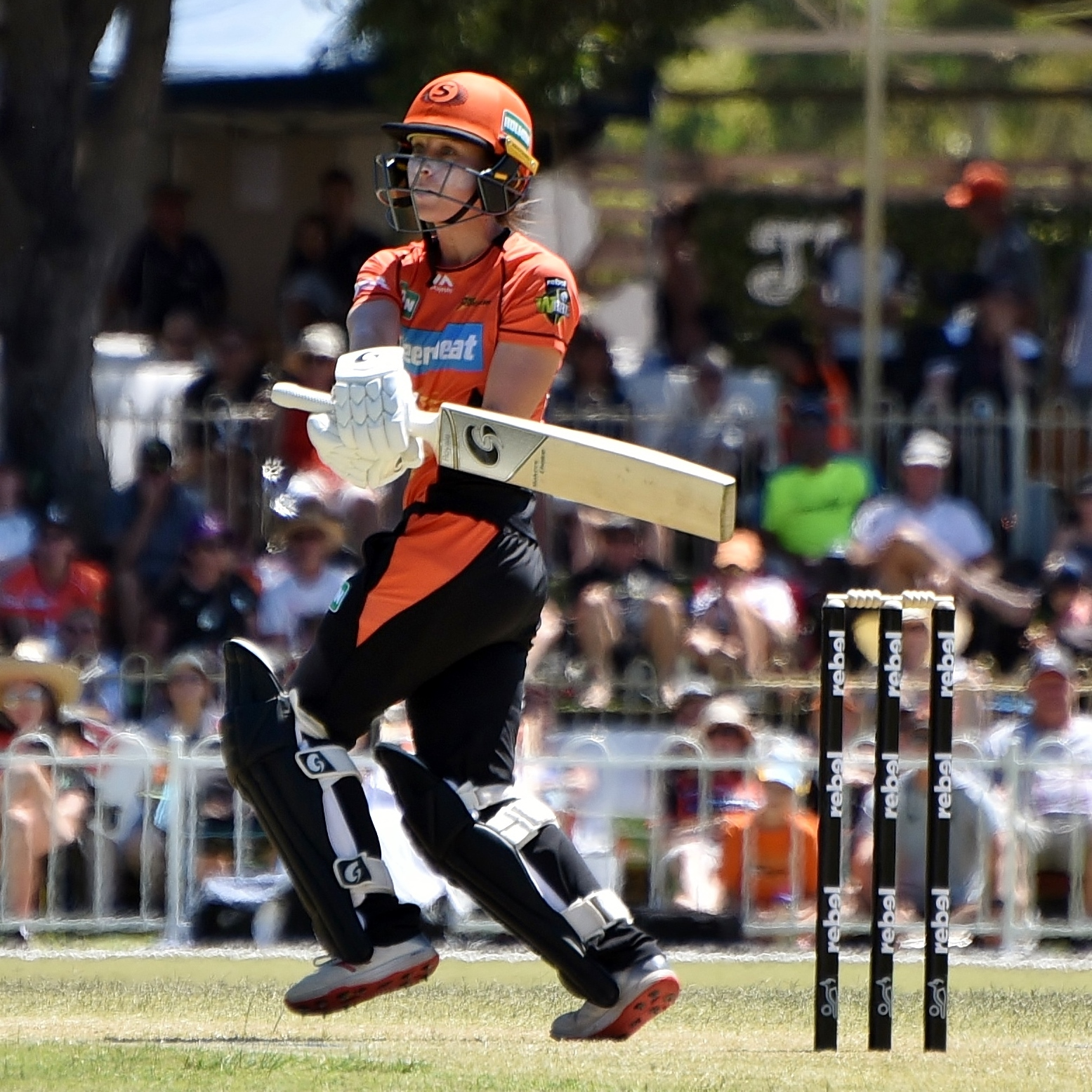 Perth Scorchers batter Chloe Piparo batting against the Sydney Thunder, in a WBBL match at Lilac Hill Park in Perth